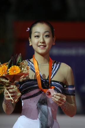 Mao Asada during the ladies medals ceremony at the 2007-2008 Grand Prix Final.